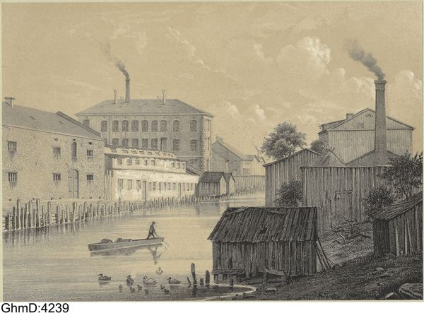 View of Almedahls cotton mill in Gothenburg, Sweden